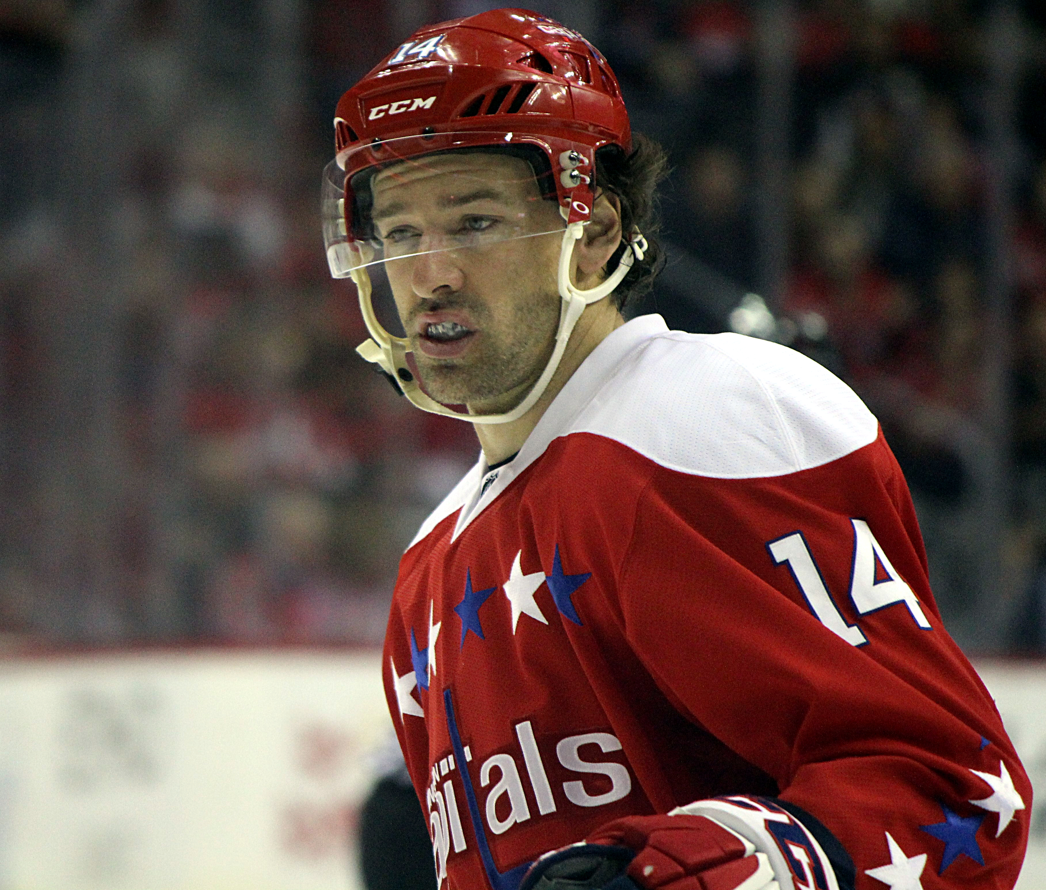 Washington Capitals forward Justin Williams during a game against the Pittsburgh Penguins, Thursday, April 7, 2016 at Verizon Center in Washington, D.C.